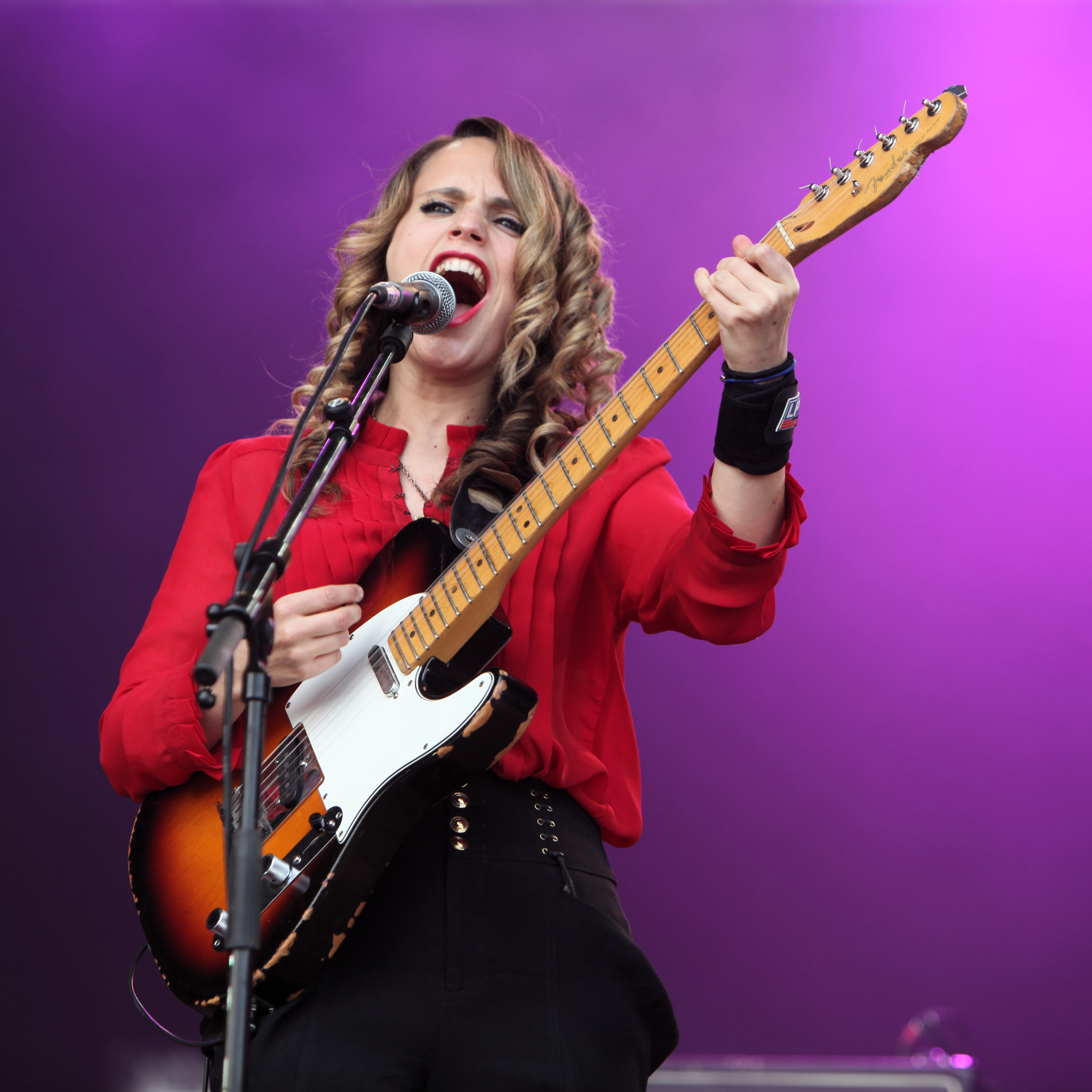 Anna Calvi at the Eurockéennes de Belfort 2011 The making of this document was supported by Wikimedia CH. (Submit your project!) For all the files concerned, please see the category Supported by Wikimedia CH.